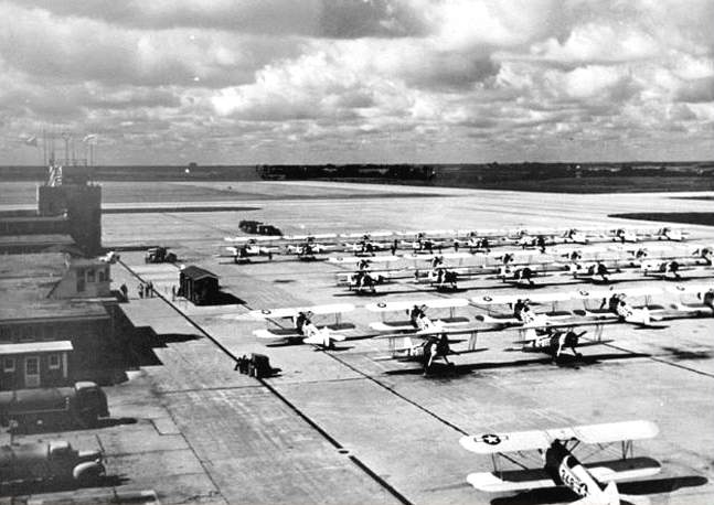 Trainer aircraft on the flightline of NAS Ottumwa. Photo taken near Ottumwa, Iowa sometime in the mid-1940s